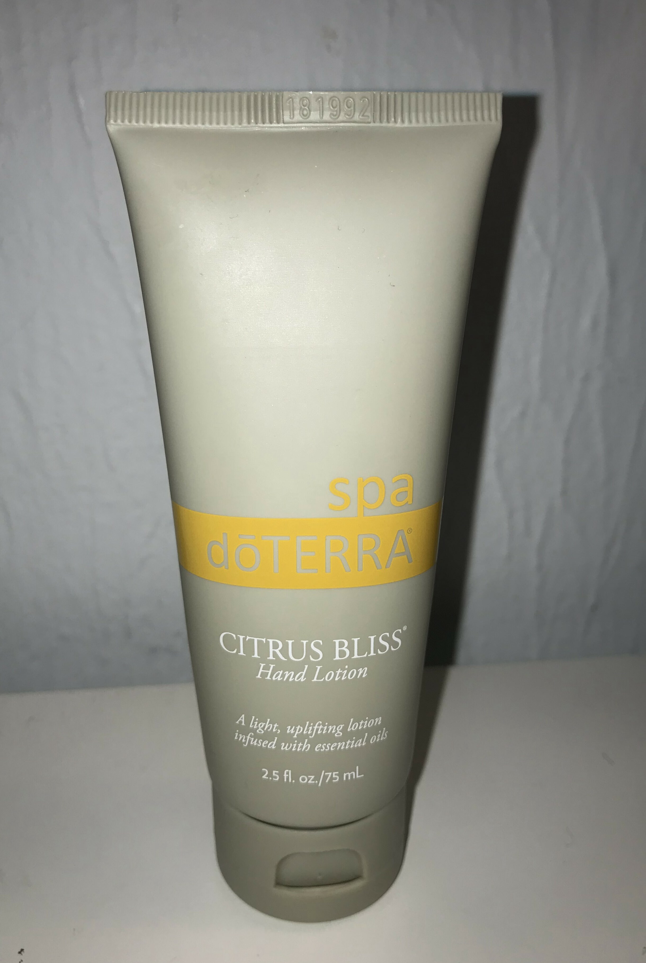 dōTERRA hand lotion